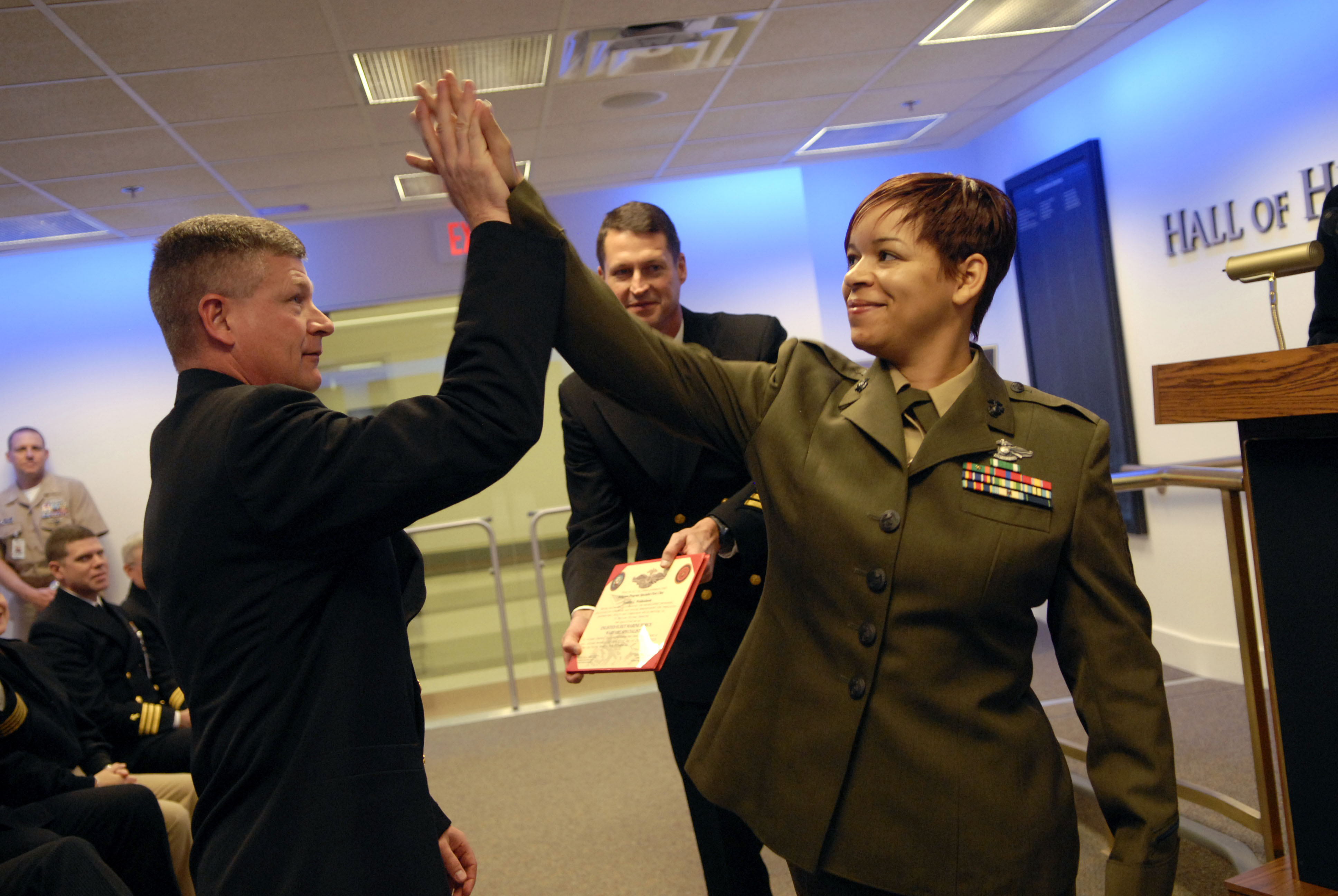 WASHINGTON (March 5, 2009) Master Chief Petty Officer of the Navy (MCPON) Rick West congratulations Religious Program Specialist 1st Class Jennifer L. Woldeselassie, HQ Marine Forces Reserve, with a high-five after pinning on her Fleet Marine Force (FMF) Enlisted Warfare Specialist pin during the Reserve Appreciation Day at the Pentagon Hall of Heroes. (U.S. Navy photo by Mass Communication Specialist 1st Class Jennifer A. Villalovos/Released)